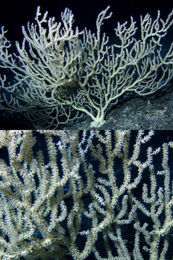 This is the largest colony of white bamboo coral (Keratoisis flexibilis) that Mr. Reed has seen to date. It measured approximately 4’ wide and 3’ tall. The close-up view shows the coral’s extended feeding polyps. This coral and other filter feeders orient so that they are perpendicular to the current, positioning themselves to be in the flow of food carried in the current.